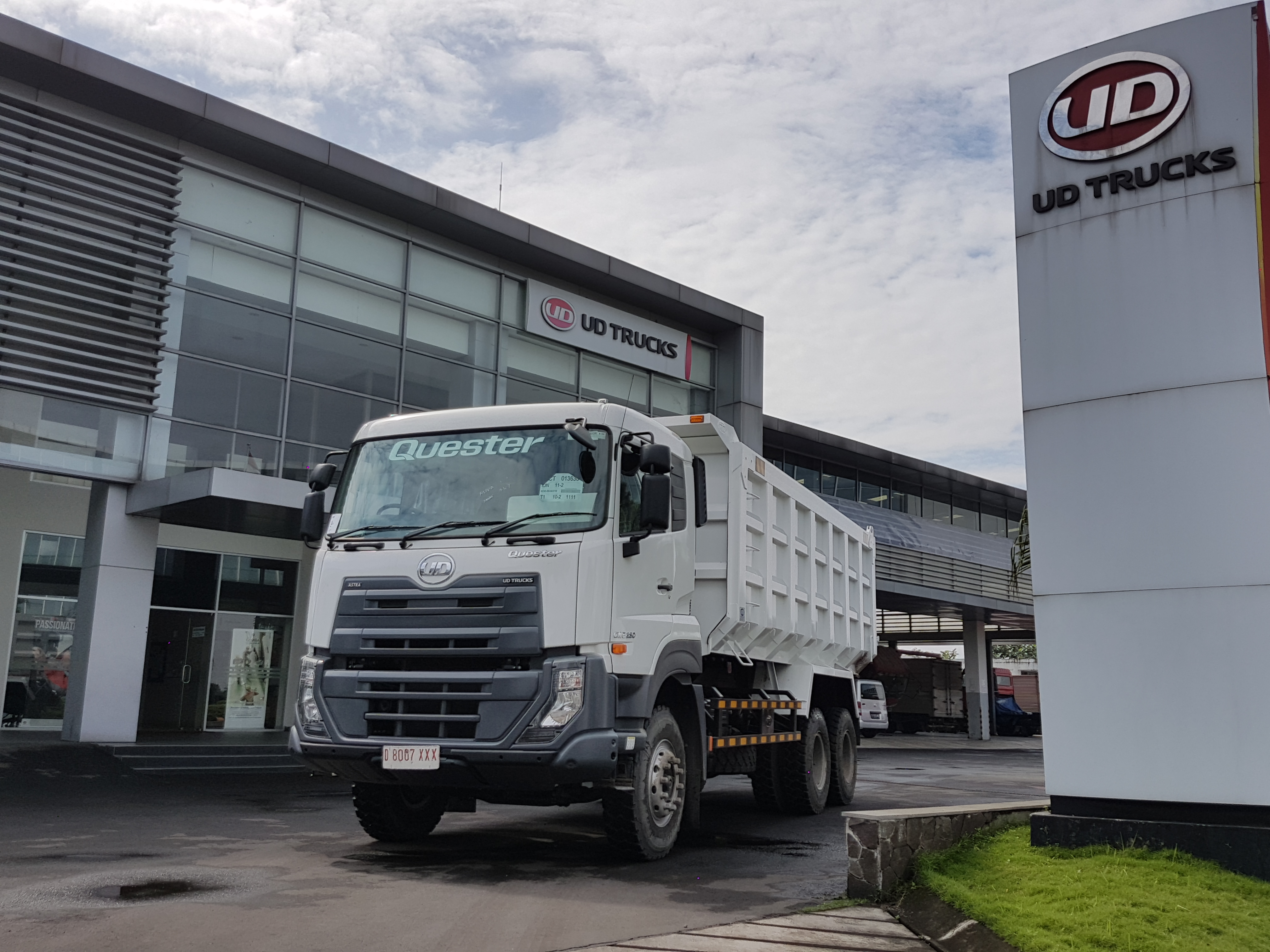 UD Quester